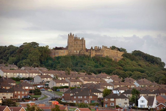 Bolsover Castle Bolsover Castle stands guard over the new town